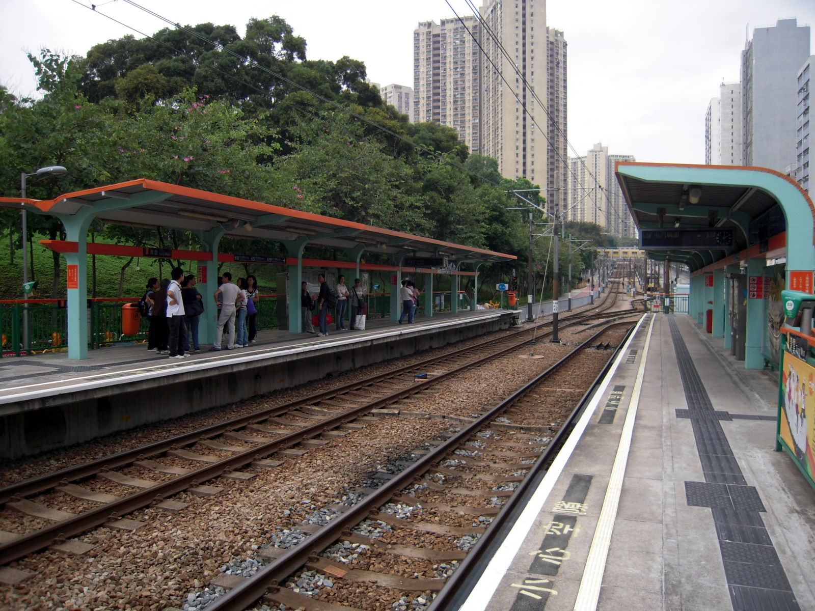 MTR Light Rail Tsing Wun Stop, Hong Kong.